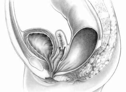 Picture of a persistent cloaca